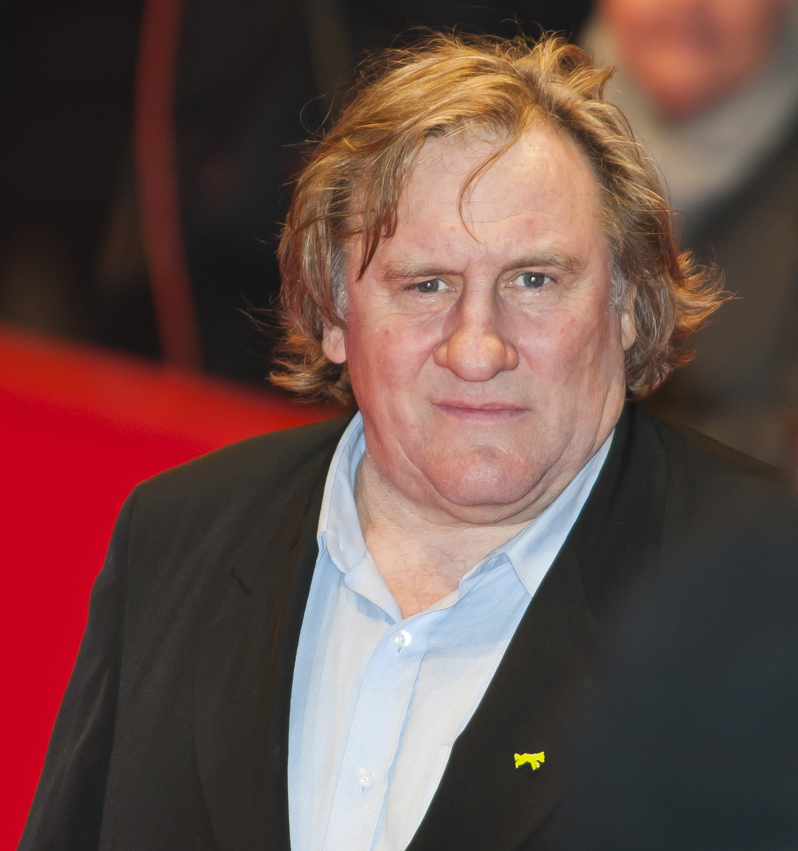 French actor Gérard Depardieu at the premiere of "MAMMUTH" at the Berlinale Palast